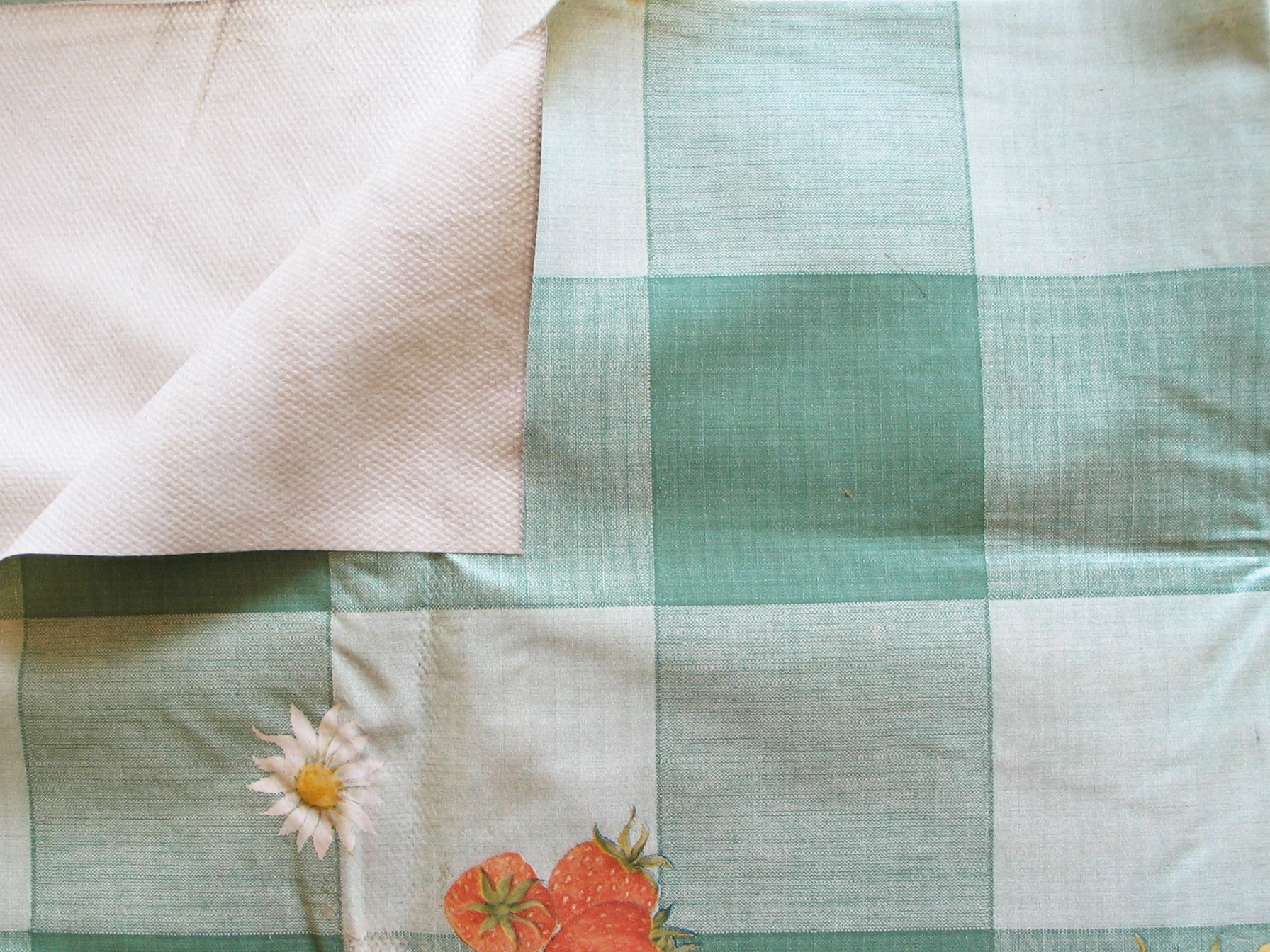 An oilcloth, waxed cloth or cerecloth used in kitchen.